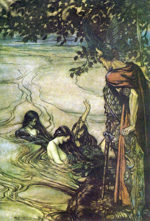 "Though gaily may ye laugh, / In grief ye shall be left, / For, mocking maids; this ring / Ye ask shall never be yours."